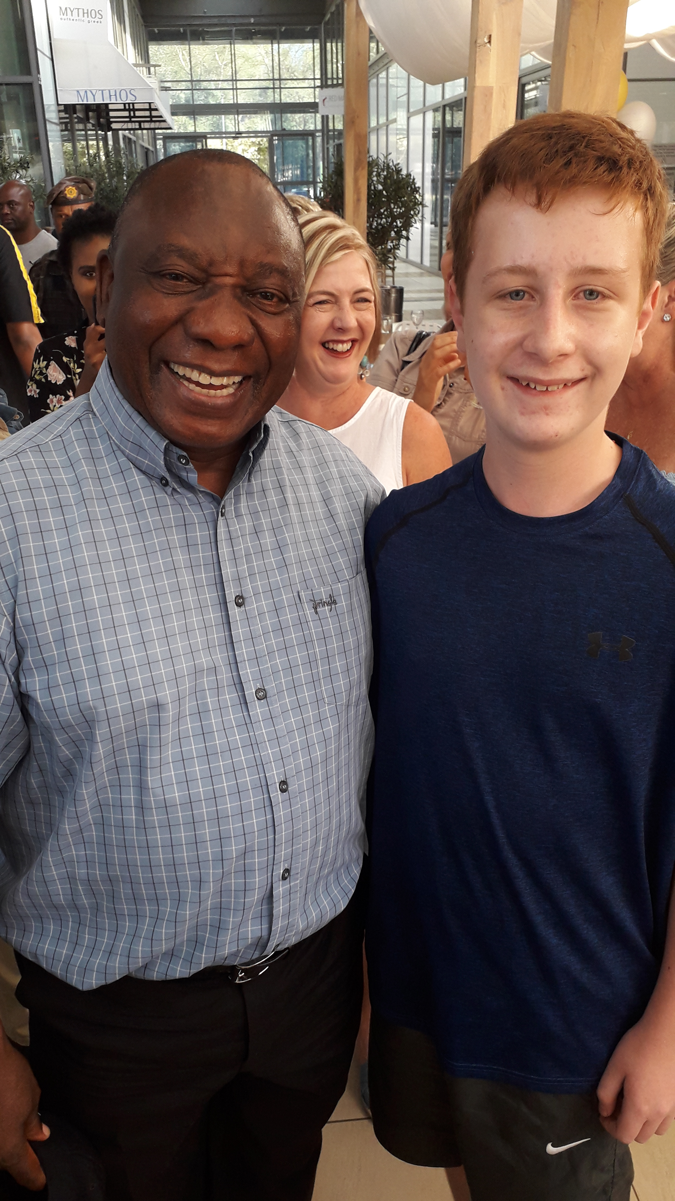 Wikipedian Lefcentreright with South African President Cyril Ramaphosa.